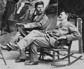 Portrait of U.S. painter Henry F. Farny